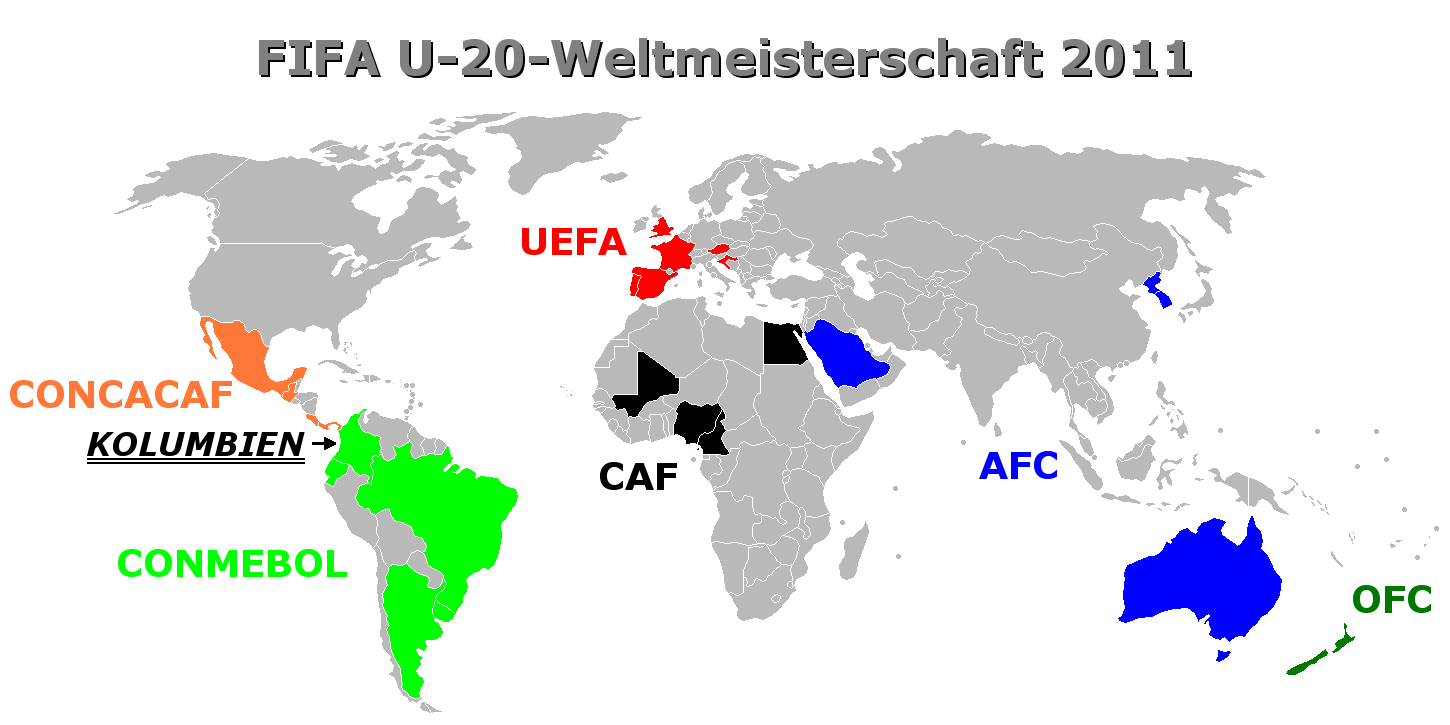 Qualified teams for the 2011 FIFA U-20 World Cup.